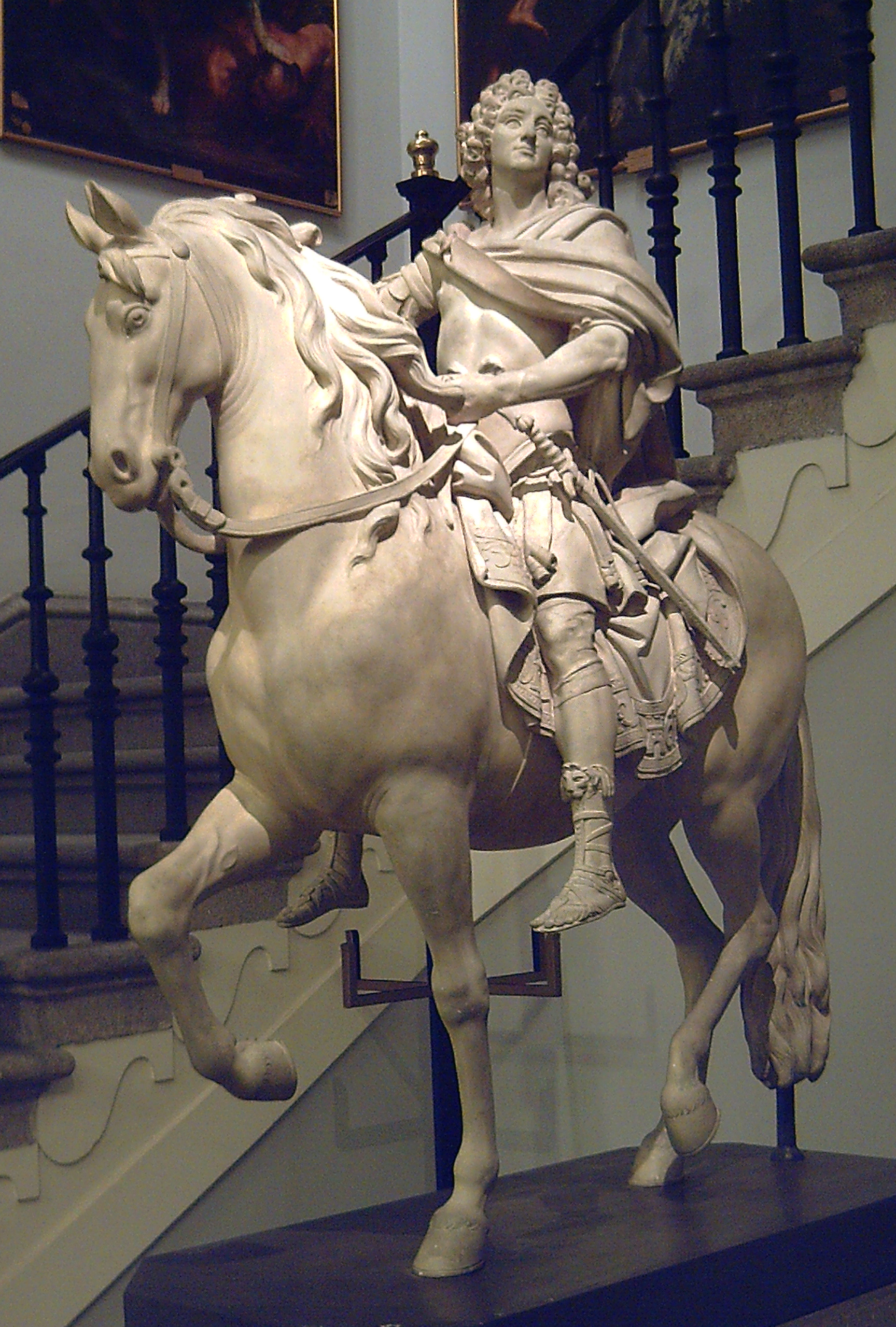 Equestrian statue of king Philip V of Spain.